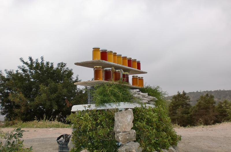 View Honey Al Jabal Alkhdar near the city of Al Bayda, Libya